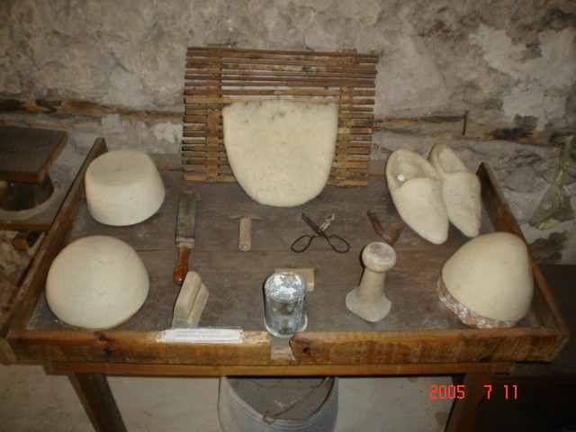 Ethnographic Museum Location: Kruja, Albania